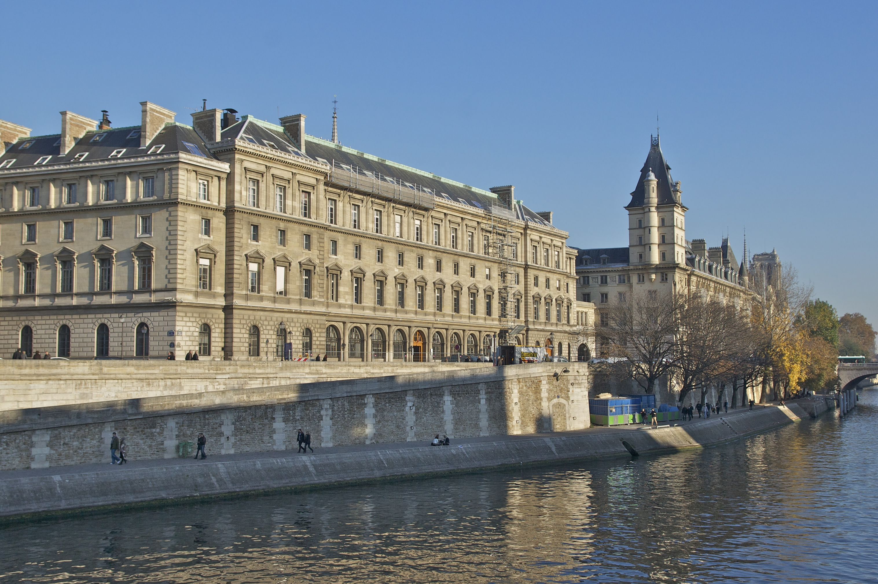 Part of the Quai des Orfèvres (Quay of the goldsmiths) in Paris.